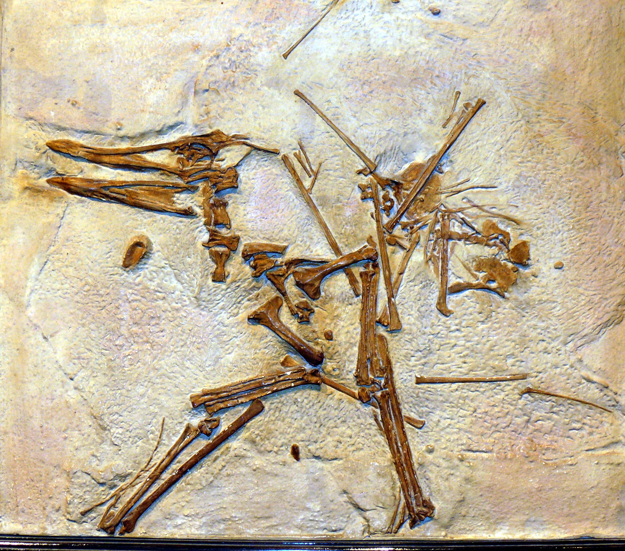 Holotype specimen of Pterodactylus suevicus (now classified as Cycnorhamphus), specimen number GPIT 80 (example 53 of Wellnhofer 1970)